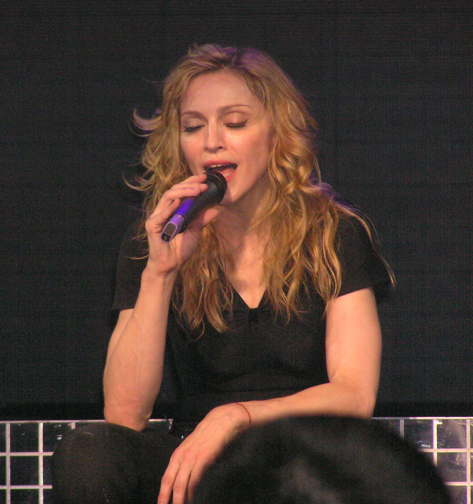 Madonna concert in Fresno